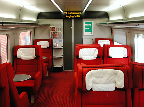 Kustpilen-train in Sweden. First class interior.